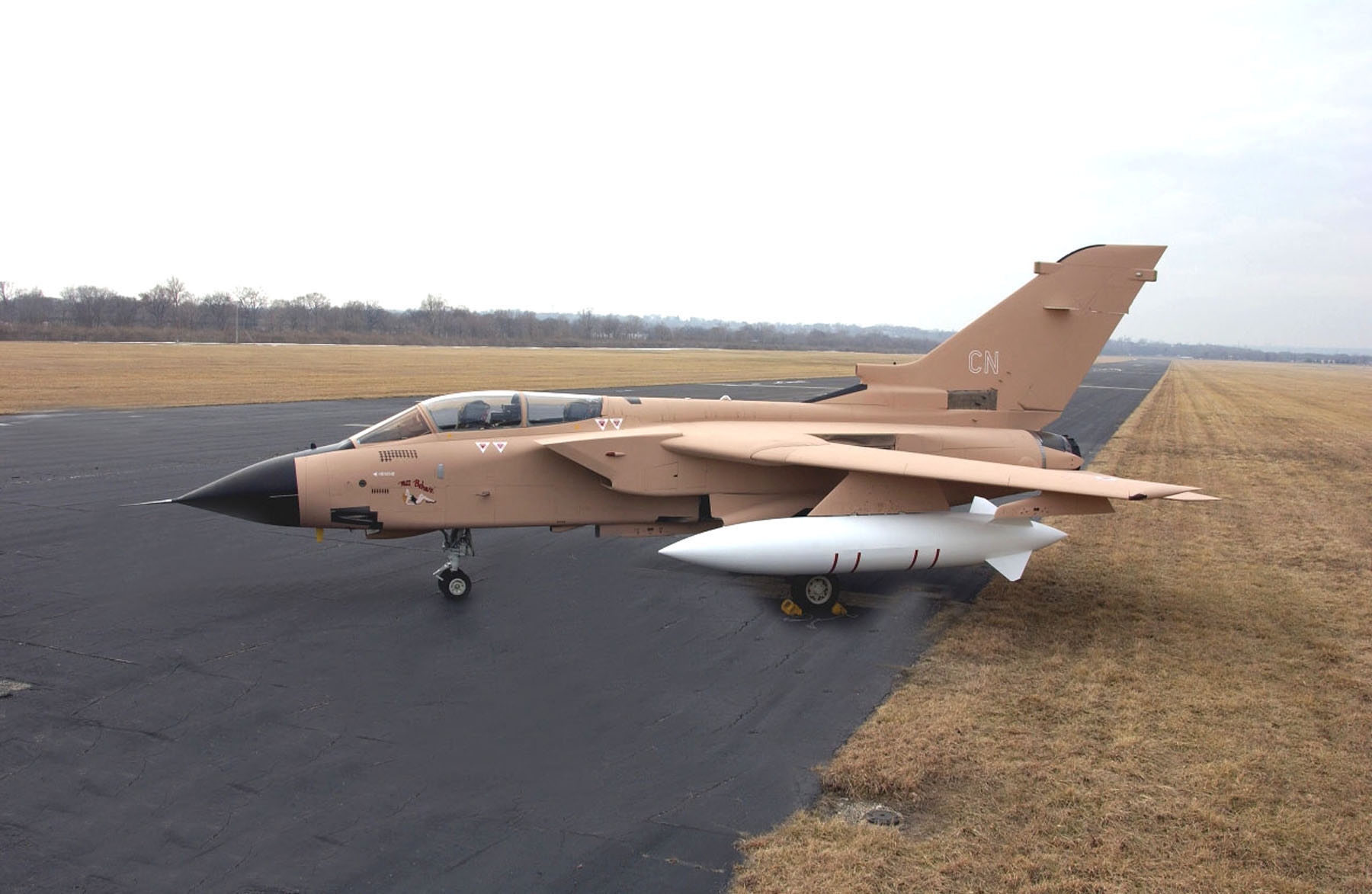 A former British Royal Air Force Panavia Tornado GR.1 donated to the Museum of the United States Air Force.